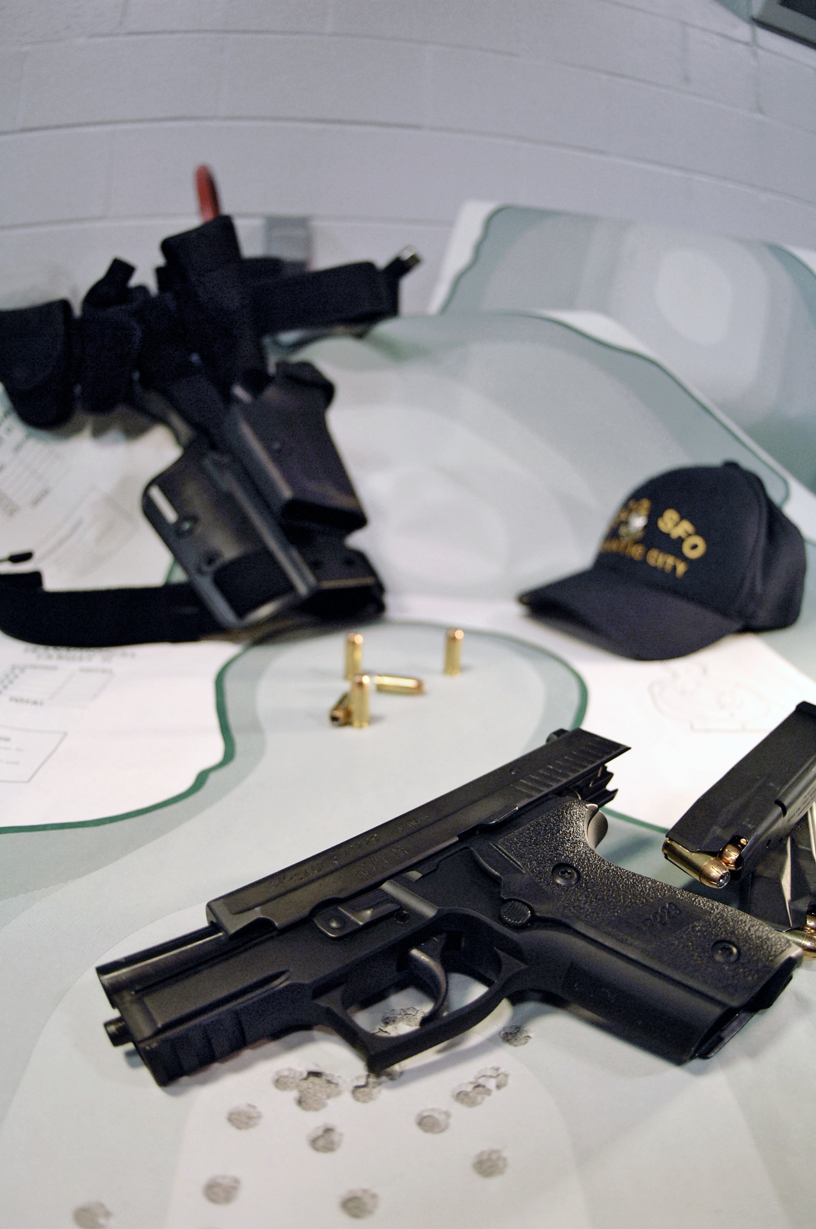 ATLANTIC CITY, N.J. (Feb. 14, 2006) The SIG P229-DAK .40 caliber pistol is the newest asset in Coast Guard law enforcement. The SIG is manufactured by SIGARMS in Exeter, N.H.